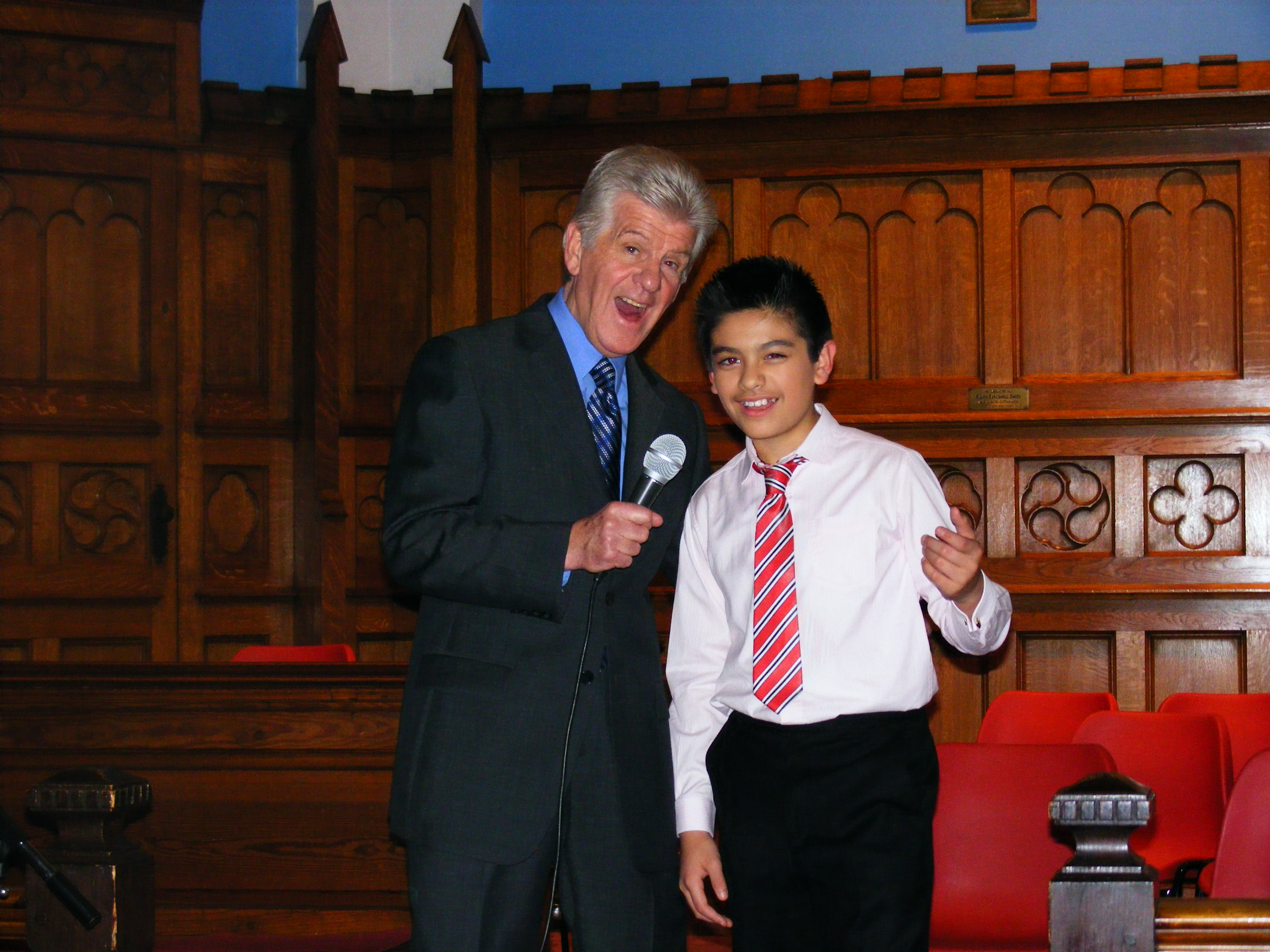 Roger and Charlie Green in performance at Cradley Heath Baptist Church Christmas Spectacular December 2009